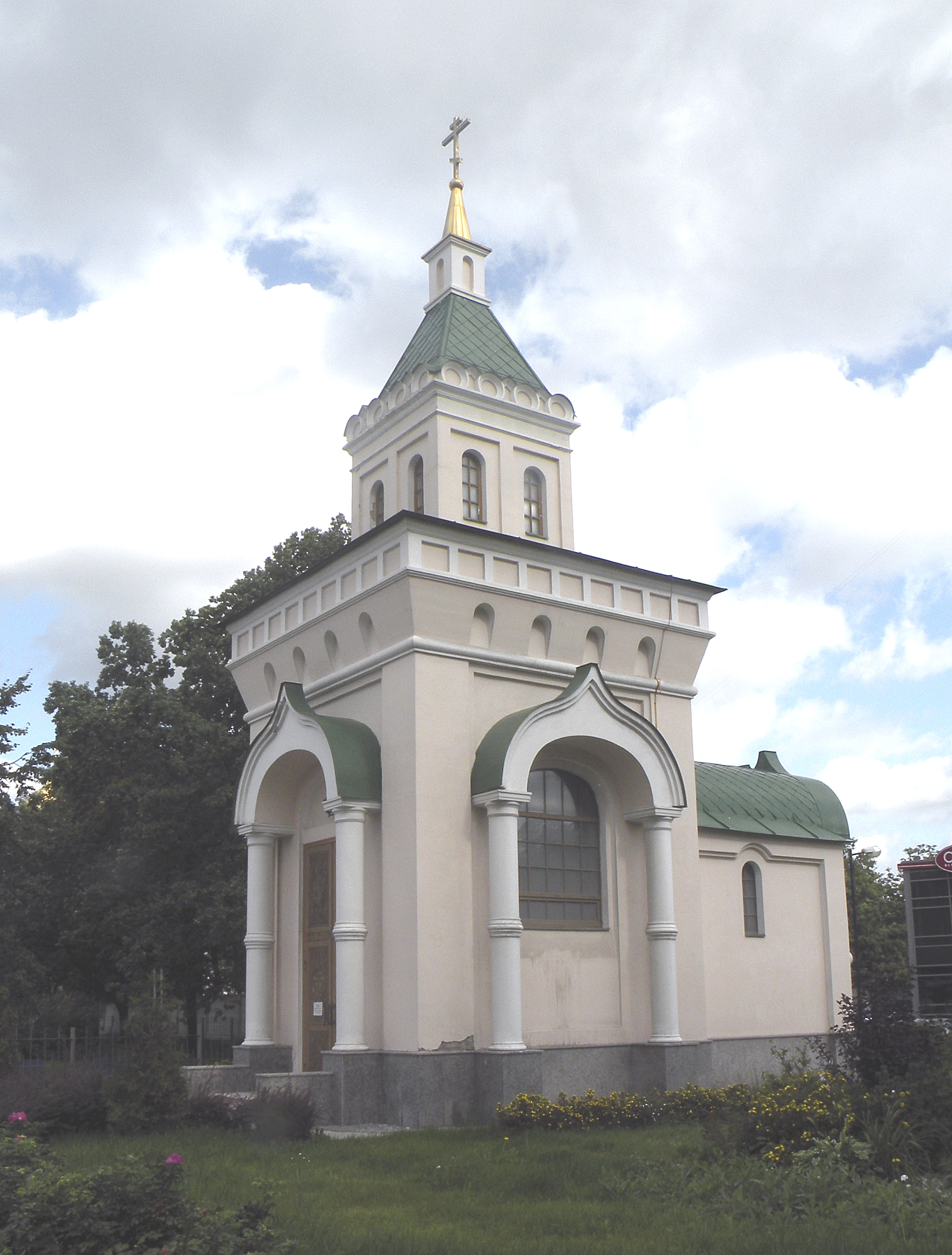 Saint Petersburg (Russia), Moskovsky Avenue.